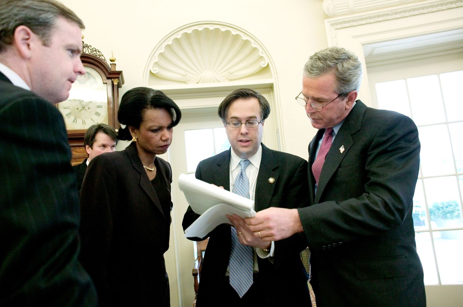 President George W. Bush reviews his State of the Union speech in the Oval Office Tuesday morning, January 20, 2004, with Communications Director Dan Bartlett, at left, Staff Secretary Brett Kavanaugh, National Security Adviser Condoleezza Rice and Mike Gerson, Director of Presidential Speech Writing. White House photo by Eric Draper